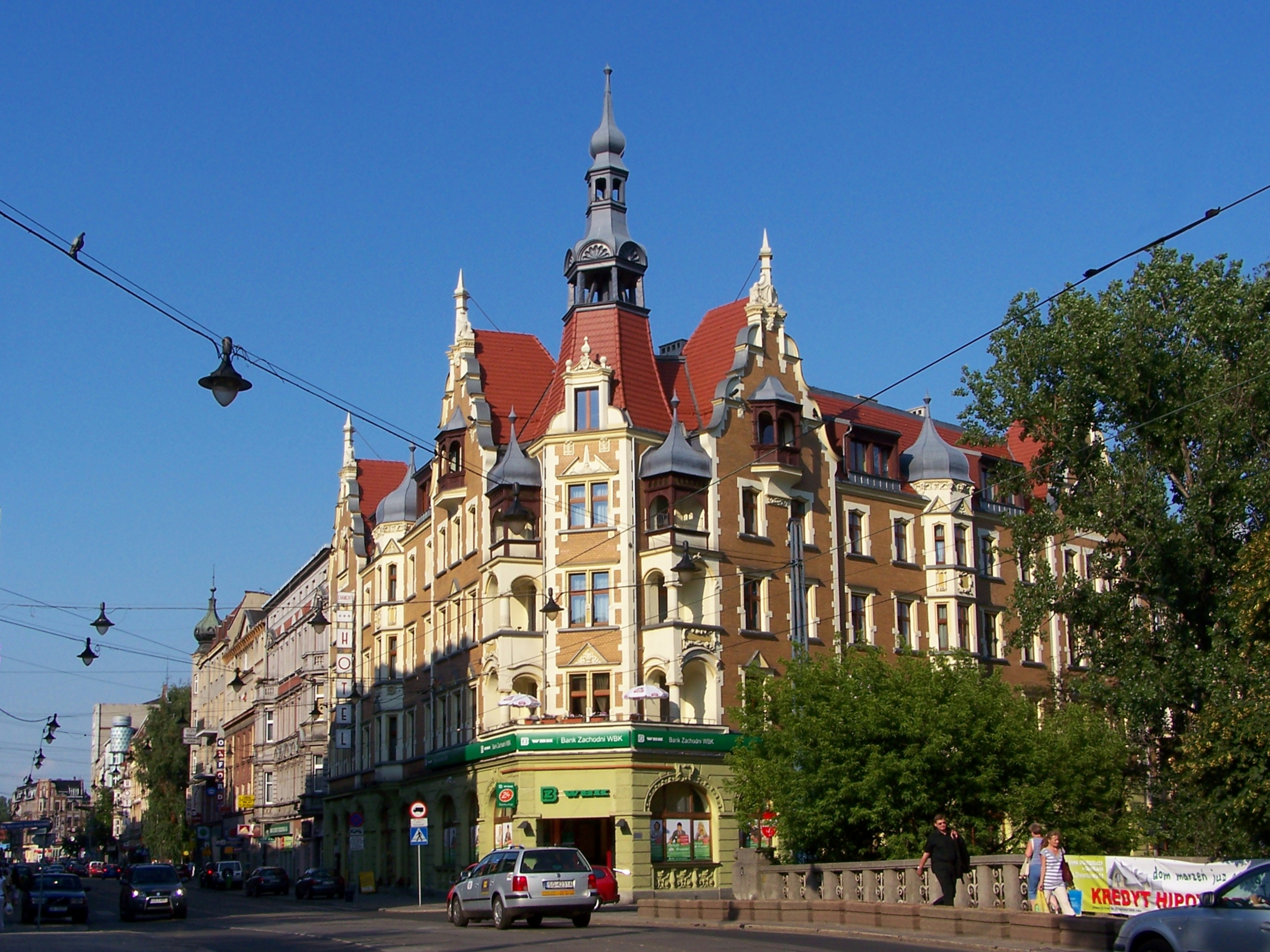 Tenement house in Gliwice (Poland).